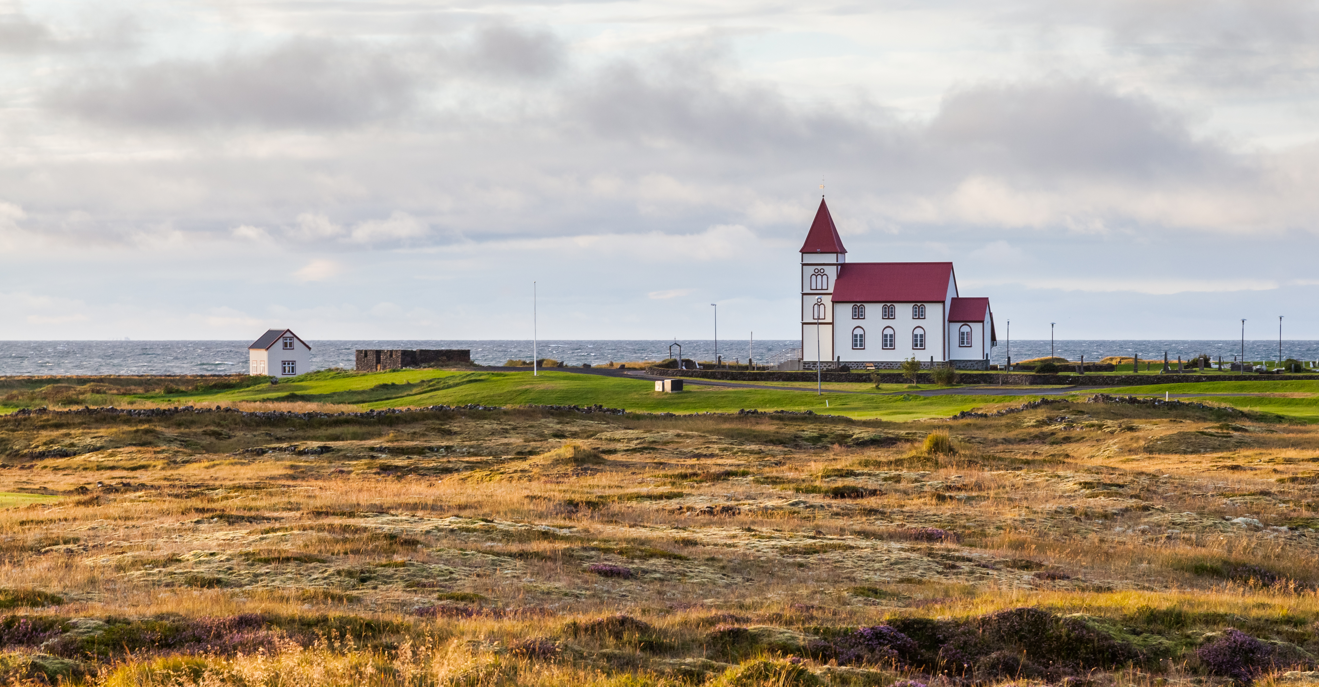 Rural church of Kalfatjorn, Suðurnes, Iceland